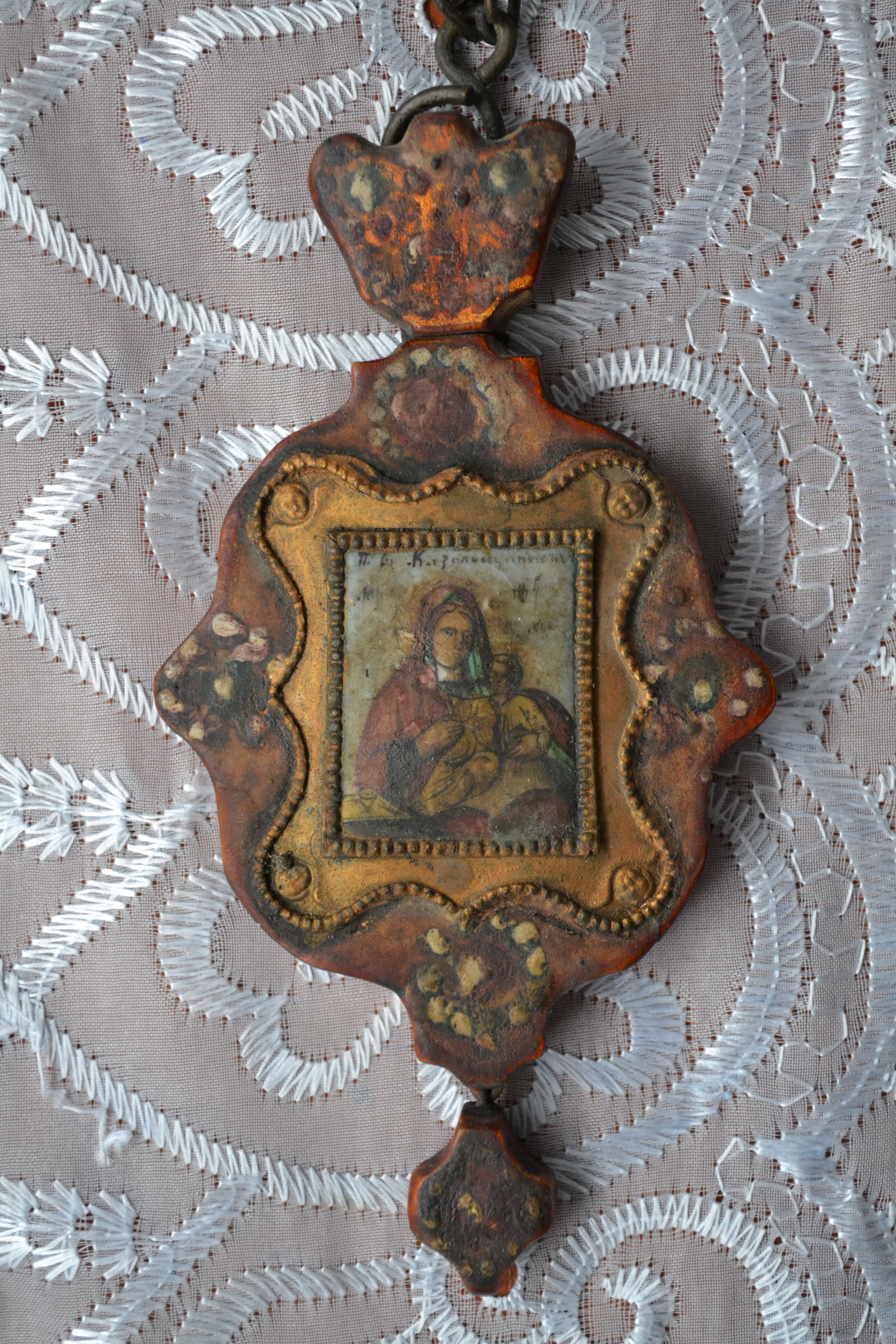 Panagiya_Bishop_Lolliy